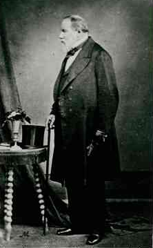 Photograph of Sir Frederick Robe, taken ca. 1890.